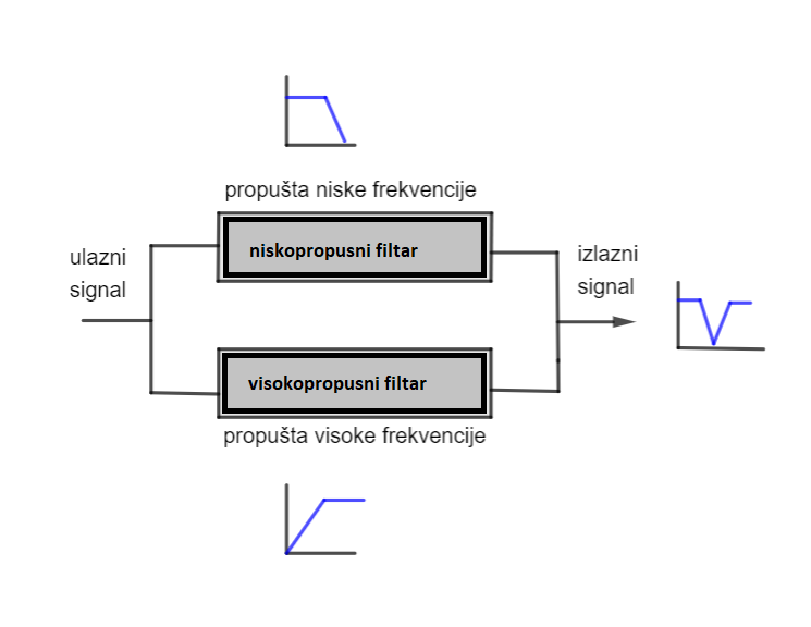 Band stop block diagram